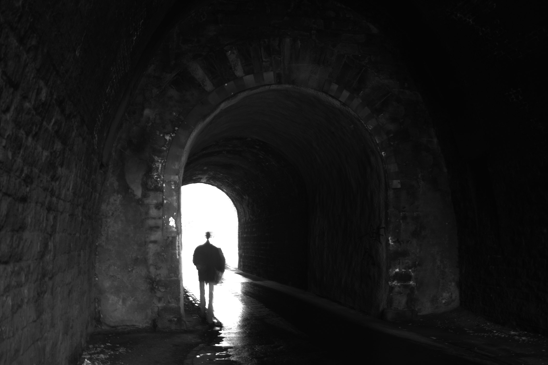 Photographic illustration of a near-death-experience.